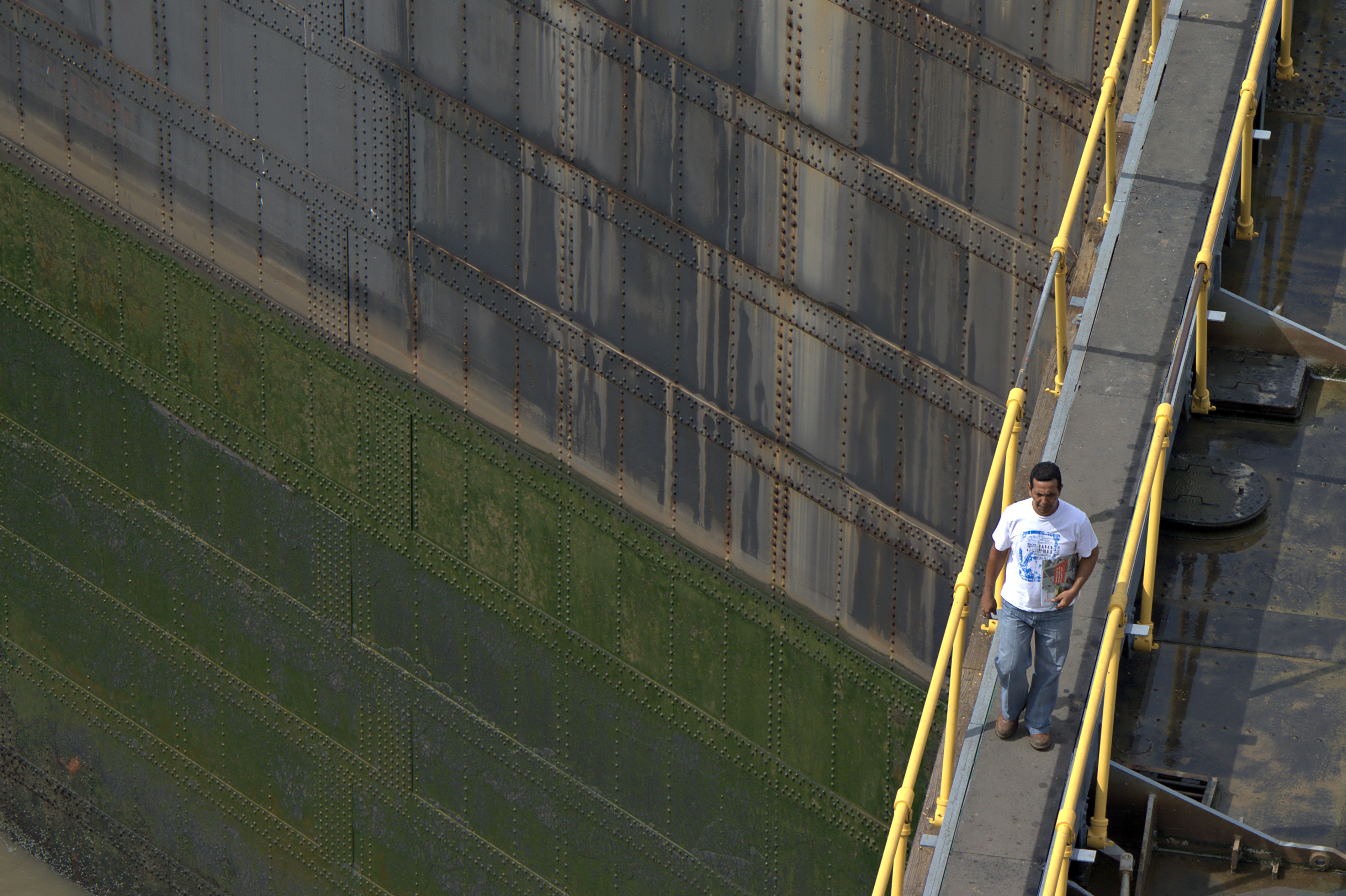 Worker on the Miraflores locks, Panama-Canal, Panama